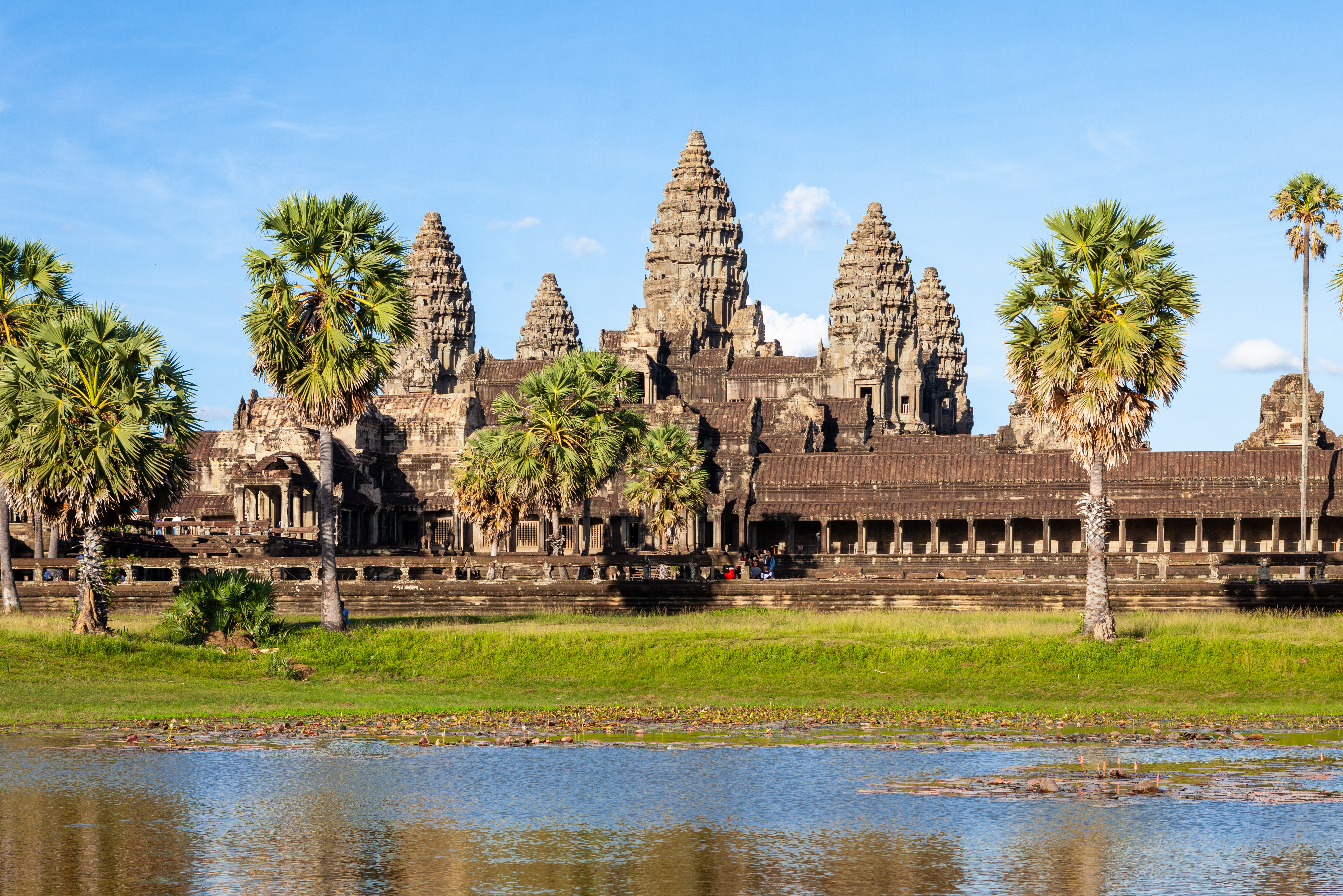 View of Angkor Wat from southern reflecting pond, Siem Reap, Cambodia.